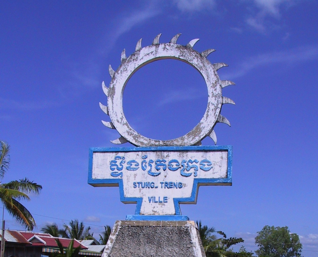 The Steung Treng Ville sign